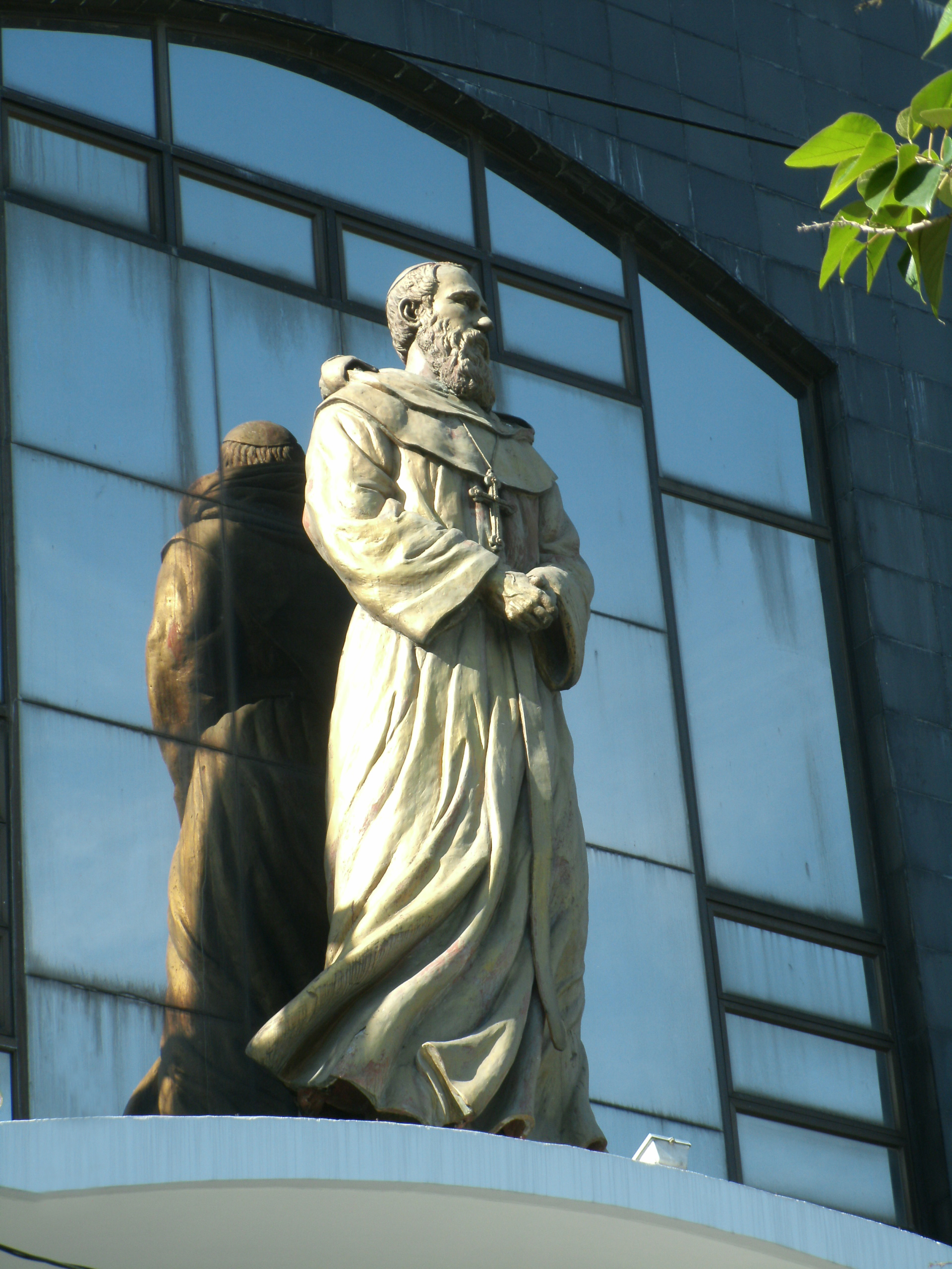 GE DIGITAL CAMERA